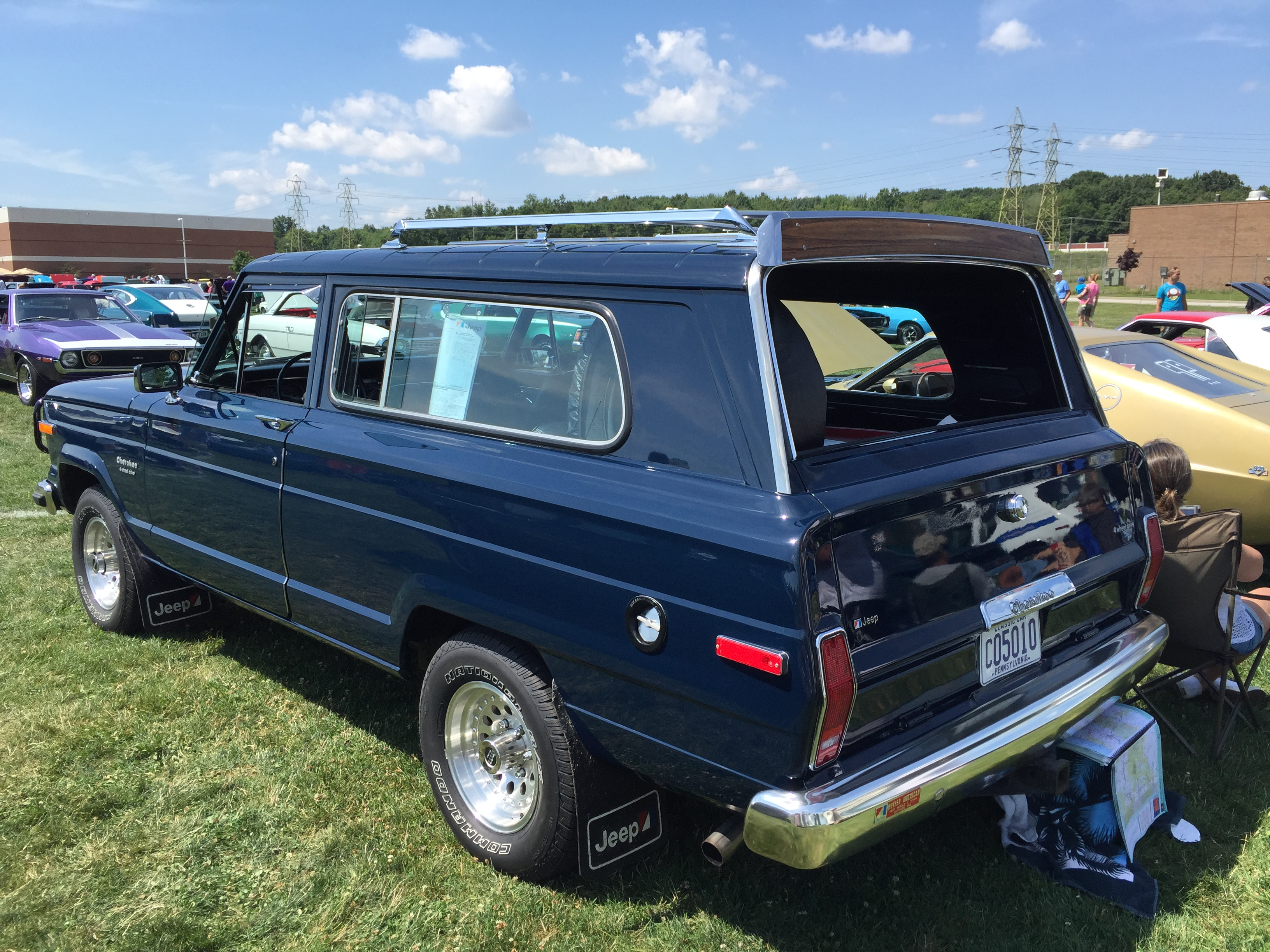 1983 Jeep Cherokee (SJ) two-door SUV (officially described as "wagon" on the manufacturer's original Monroney "window" sticker because the term "Sport Utility Vehicle" was not in use in 1983). This Jeep has AMC's 360 cu in (5.9 L) 2-barrel V8 engine, the automatic transmission and a steering column mounted shifter, as well as the standard "part-time" four-wheel-drive system. Finished in "Deep Night Blue" it has an accessory front brush guard. The interior is in black with the optional center cushion and armrest between the standard bucket seats. The original AM radio in this Jeep has been upgraded to AMC's AM/AF/cassette tape deck. Picture taken during the car show at the American Motors Owners Association (AMO) annual convention that was held July 2015 near Cleveland, Ohio.